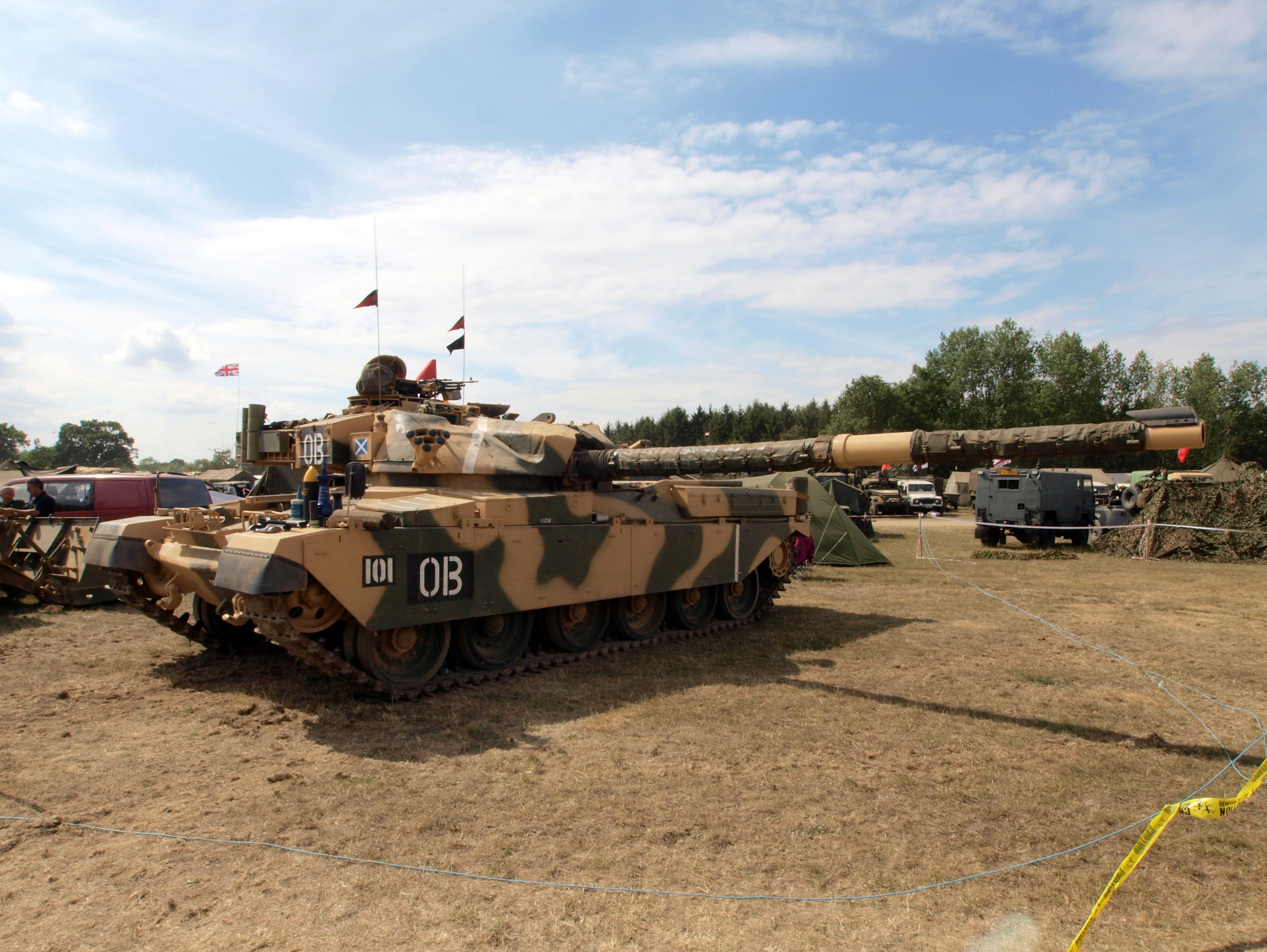 Chieftain Mk11 of the Royal Scots Dragoon Guards, painted in the colours of the British Army Training Unit Suffield (BATUS)